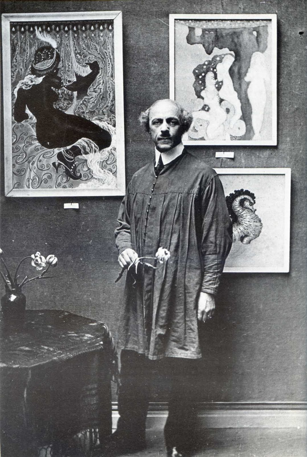 Nicholas Kalmakoff at Galerie Charpentier, Paris 1928